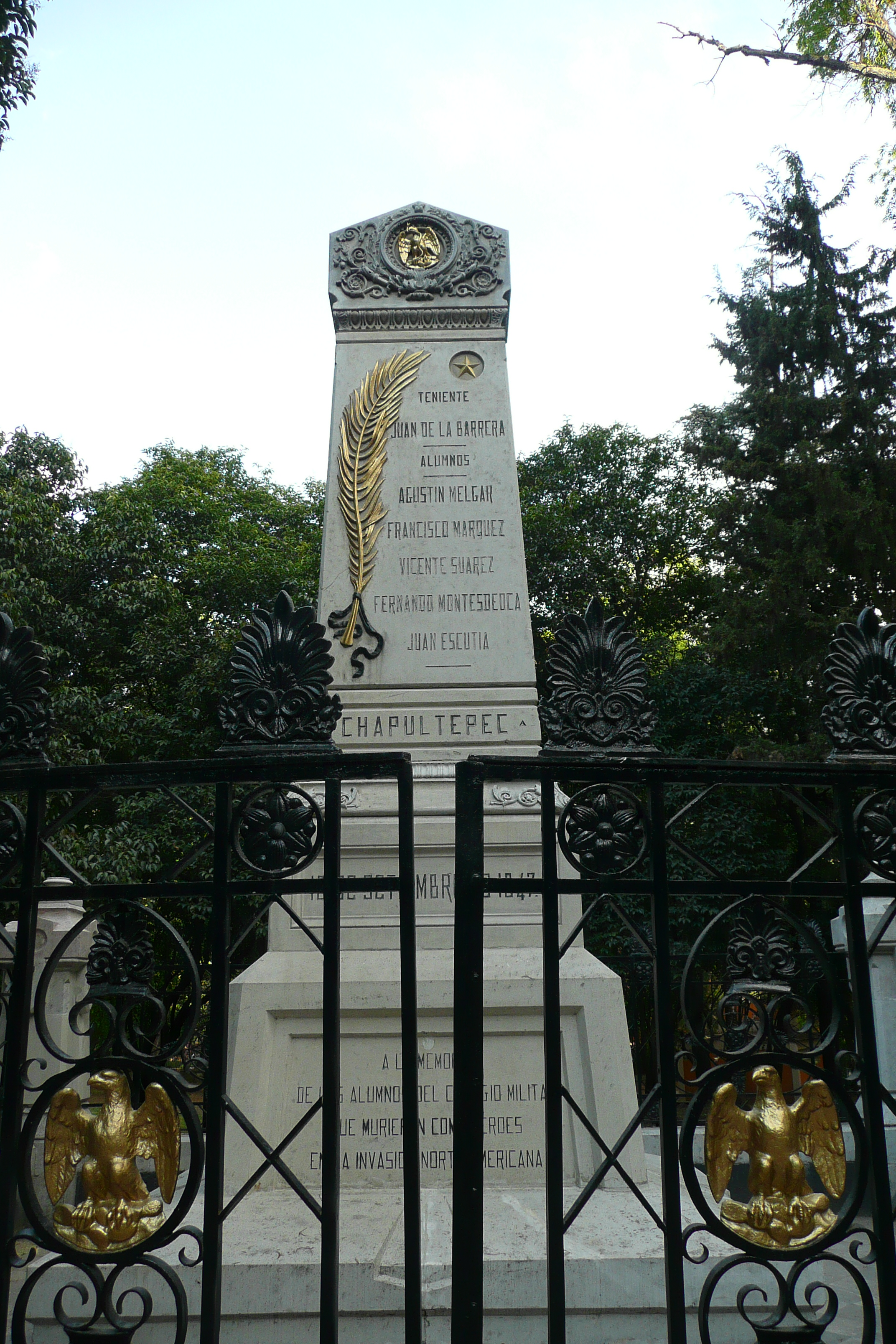 Obelisk commemorating the cadets and military school personnel who participated in the Battle of Chapultepec, which opened in 1881.